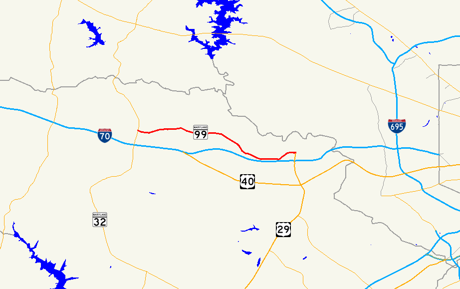 Map of Maryland Route 99